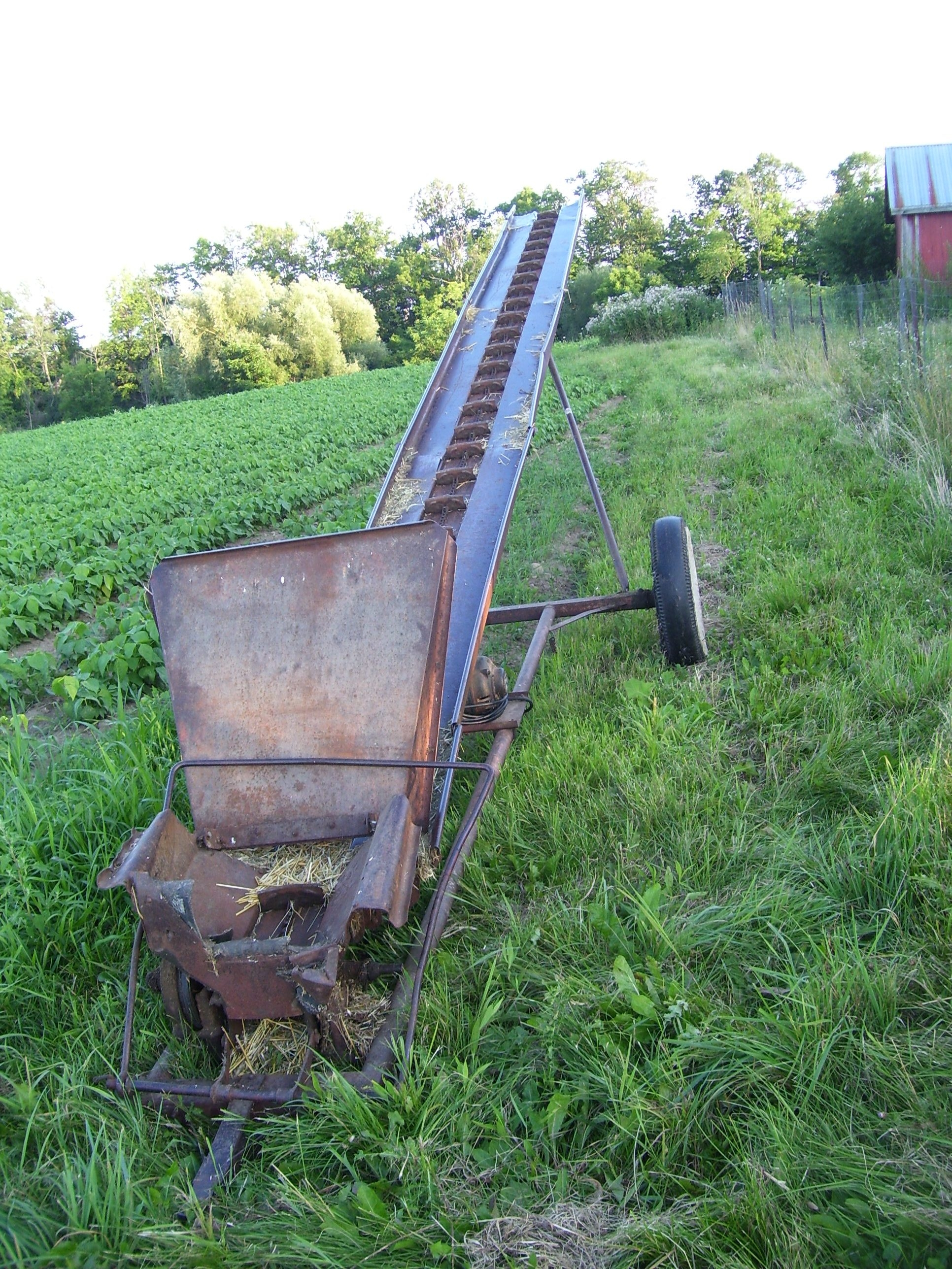 A hay elevator